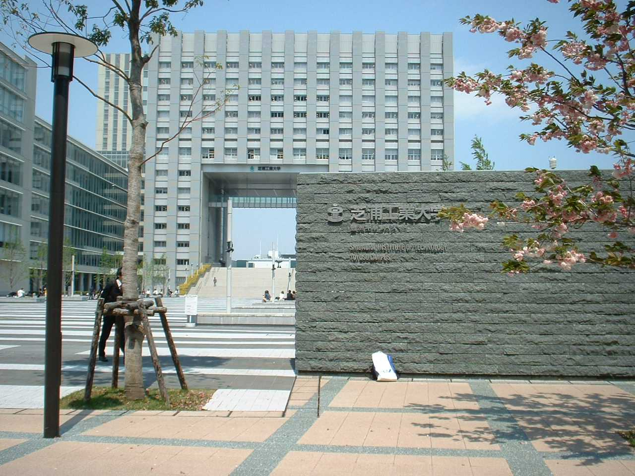 Shibaura Institute of Technology, Japan